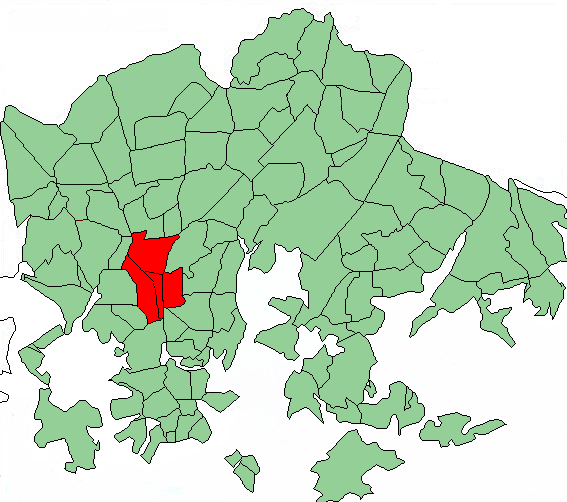 Map of Helsinki highlighting Pasila